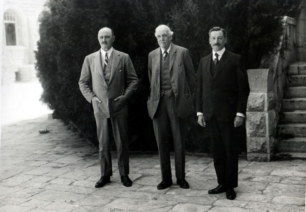 From right to left the first High Commissioner Herbert Samuel in the governor\'s house in Jerusalem with Lord Balfour and General Allenby